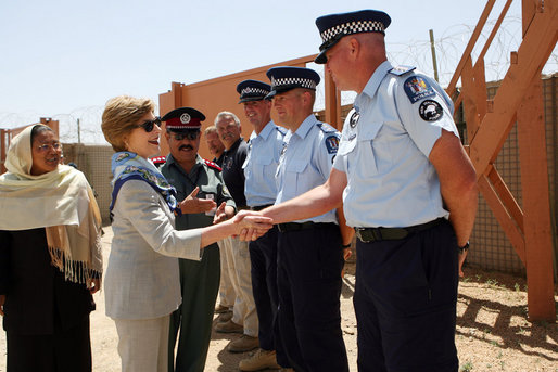 Mrs. Laura Bush greets New Zealand Police officers (from left) Superintendent Paul Carpenter, Waikato, Inspector Dave Stone, Kapiti, and Inspector Andrew Heffey on Sunday, June 8, 2008, during her visit to the Police Training Academy in Bamiyan, Afghanistan. Mrs Bush is escorted by Colonel Payman, the OC of the Afghanistan National Police Regional Training Centre, Bamiyan. He is accompanied by the Bamiyan Provincial Governor Sarabi Habibe – At the rear of the picture are DynCorp staff. Mrs. Bush traveled to Afghanistan to highlight the continued U.S. commitment to the country and its President Hamid Karzai. White House photo by Shealah Craighead